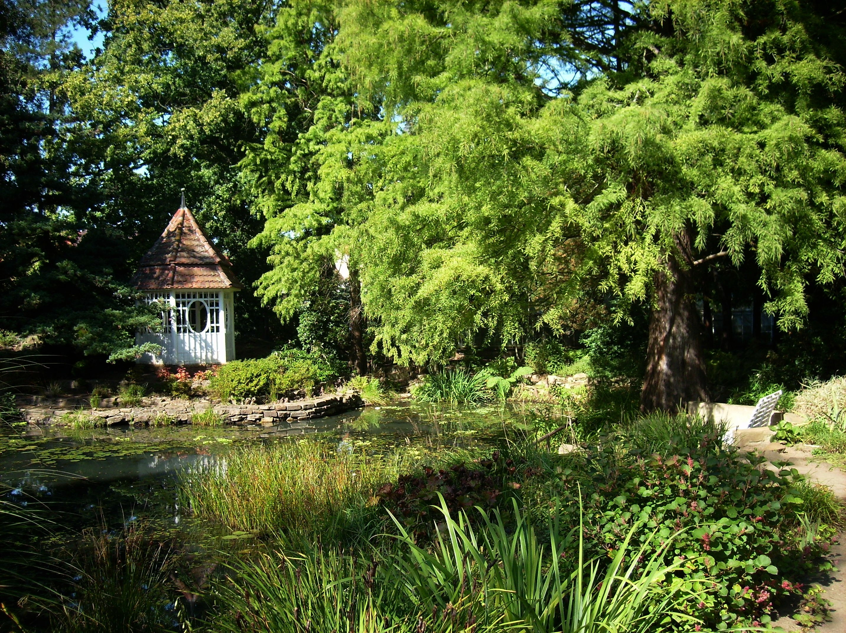 Pond in the botanical garden of Herzberg/Elster (Elbe-Elster district, Brandenburg)